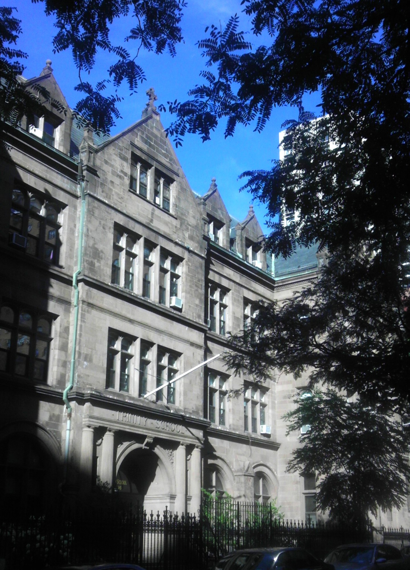 Looking east across 91st Street at Trinity School on a sunny afternoon.